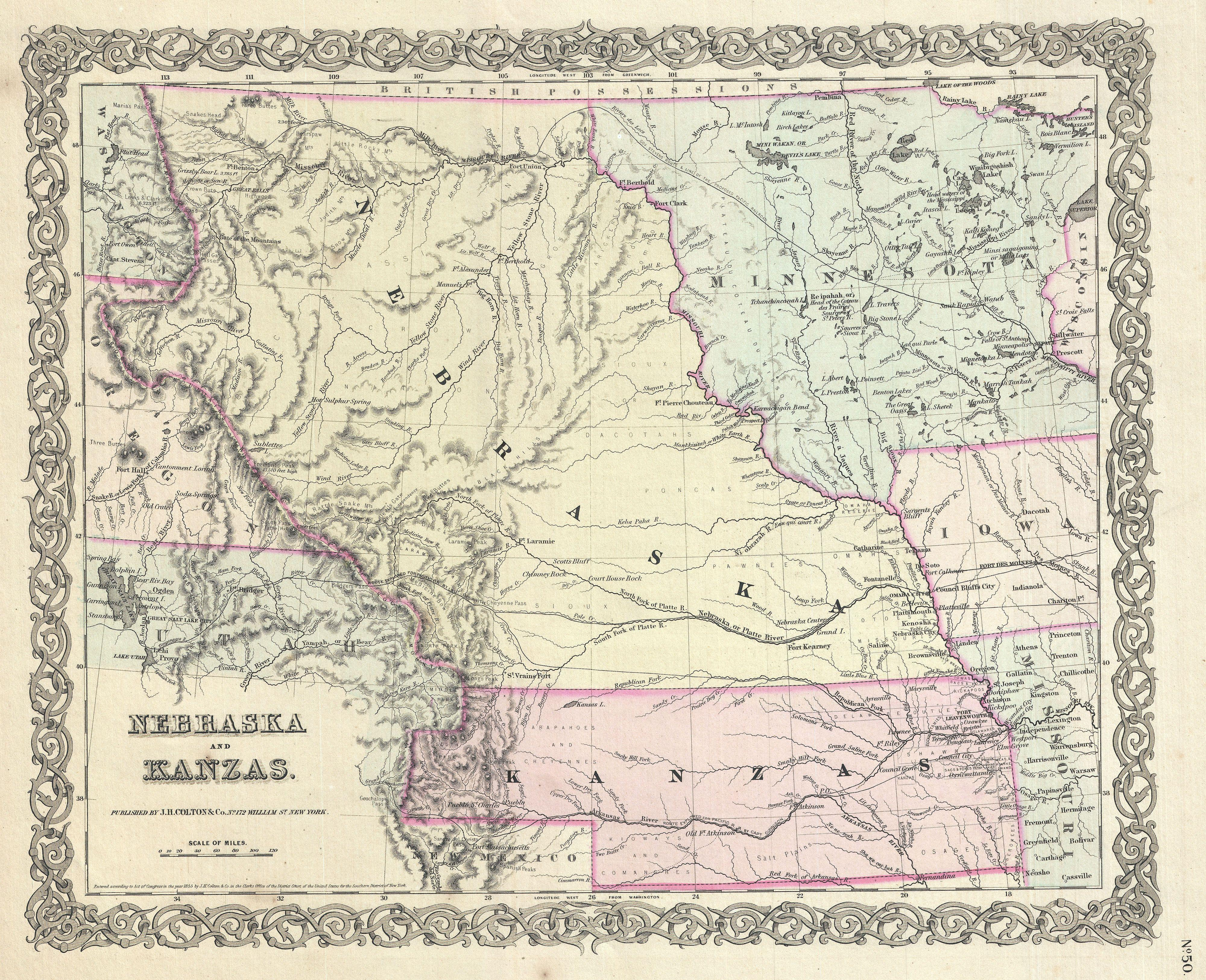 A beautiful 1855 first edition example of Colton's map of Nebraska and Kansas. This is most probably the rarest and most desirable of all Colton atlas maps. Based on earlier wall map produced by Colton and D. Griffing Johnson, this map details the regions between the Great Salt Lake and Iowa and between the Canadian Border and New Mexico. Covers territorial Kansas and Nebraska as well as parts of adjacent Minnesota, Iowa, Missouri and Utah. Shows Nebraska in its full territorial glory extending from the 40th parallel to the border British America or Canada. This massive and ephemeral territory covered much of what is today Nebraska, Wyoming, Montana, Colorado, North Dakota and South Dakota. Nearby Minnesota is also exceptionally large embracing all of the territory between Wisconsin and the Missouri River. When this map was printed Nebraska and Kansas had only recently been opened for settlement. Both regions were sparsely inhabited by the diverse yet powerful Indian nations of Comanches, Kioways, Arapahoes, Cheyennes, Sioux, Dacotahs, Poncas, Pawnee's, Omahas, Missouris, Delawares, Shawnee, Osages, Crow, Black, and others - whose territorial claims Colton notes. Colton also notes three of the routes proposed for the Pacific Railroad, the Stevens route far to the north, the Beswith route running through the center of the map, and the Gunnison Route passing through Kansas. This map further identifies various forts, rivers, mountain passes, fords, and an assortment of additional topographical detail. Map is hand colored in pink, green, yellow and blue pastels to define territory and state boundaries. Surrounded by Colton's typical spiral motif border. Dated and copyrighted to J. H. Colton, 1855. Published from Colton's 172 William Street Office in New York City. Issued as page no. 50 in volume 1 of the first edition of George Washington Colton's 1855 Atlas of the World .